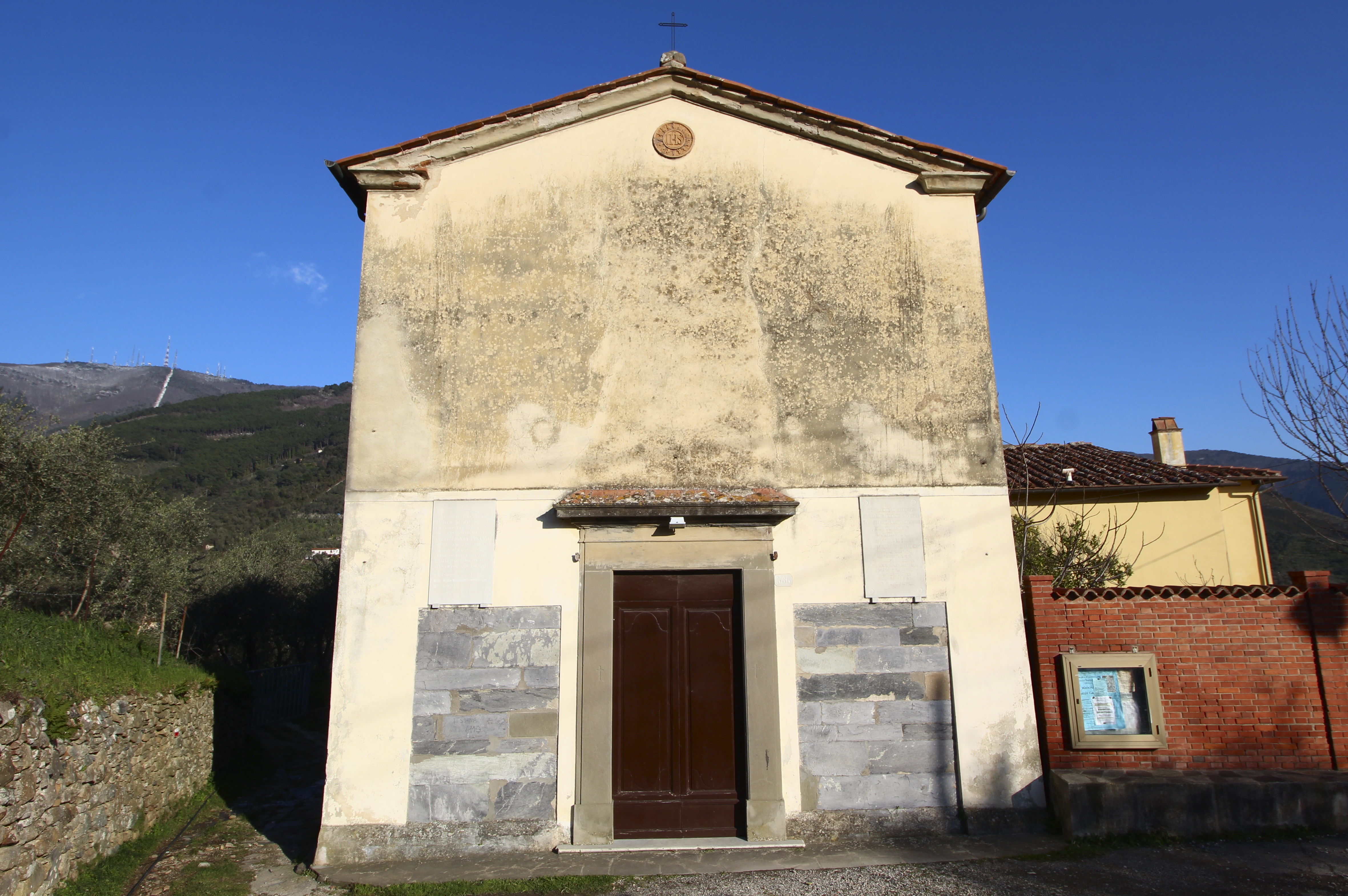 Church San Salvatore, Colle (Colle-Villa), hamlet of Calci, Province of Pisa, Tuscany, Italy